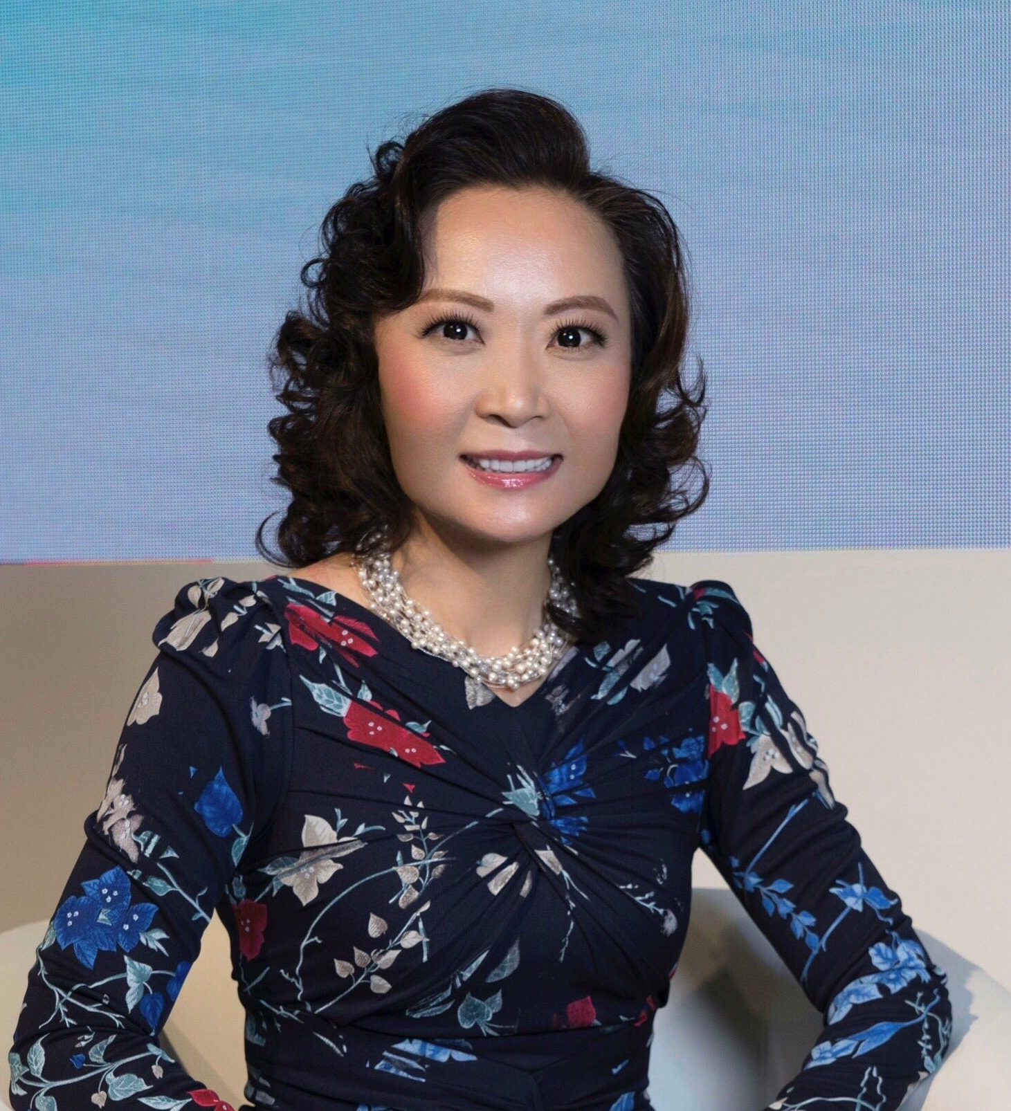 Jing Ulrich